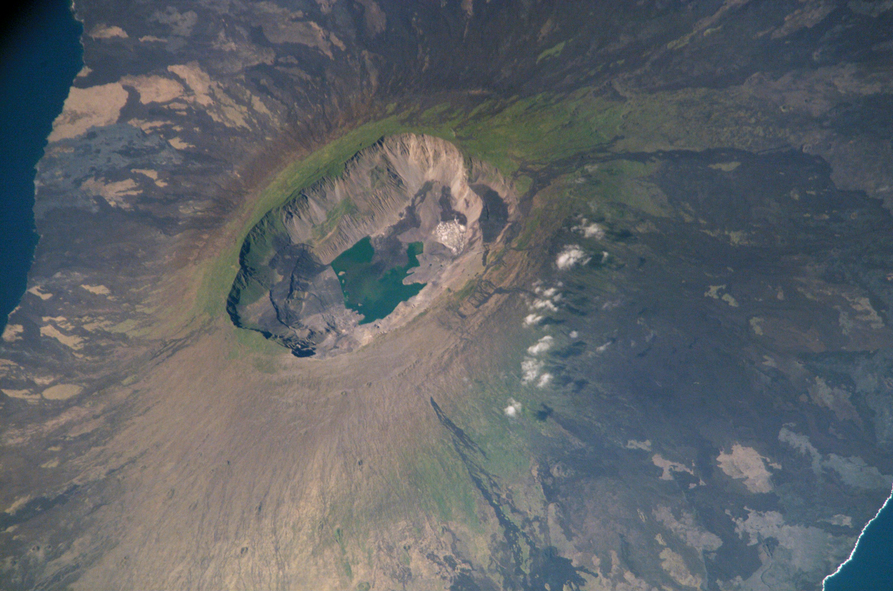 La Cumbre volcano, Fernandina Island, Galapagos. Photographed from the International Space Station. ISS Crew Earth Observations: ISS005-E-6997 Identification Mission ISS005 (Expedition 5) Roll E Frame 6997 Country or Geographic Name GALAPAGOS ISLANDS Features LA CUMBRE VOLCANO, FERNANDINA Center Point Latitude -0.5° N Center Point Longitude -91.5° E Camera Camera Tilt 40° Camera Focal Length 800 mm Camera Kodak DCS760C Electronic Still Camera Film 3060 x 2036 pixel CCD, RGBG array. Quality Percentage of Cloud Cover 0-10% Nadir What is Nadir? Date 2002-07-06 Time 20:21:02 Nadir Point Latitude -2.9° N Nadir Point Longitude -93.3° E Nadir to Photo Center Direction Northeast Sun Azimuth 312° Spacecraft Altitude 214 nautical miles (396 km) Sun Elevation Angle 51° Orbit Number 713 Original image caption La Cumbre volcano on Fernandina Island is the most active volcano on the Galapagos, erupting most recently in 1995. The volcano rises 1495 m from sea level. This photo was taken by the Expedition 5 crew aboard the International Space Station. The scene provides a detailed view of the 850-m-deep summit caldera. The dark flows in the middle of the caldera floor were erupted in 1991. Today, these flows are partly covered by dark green vegetation.